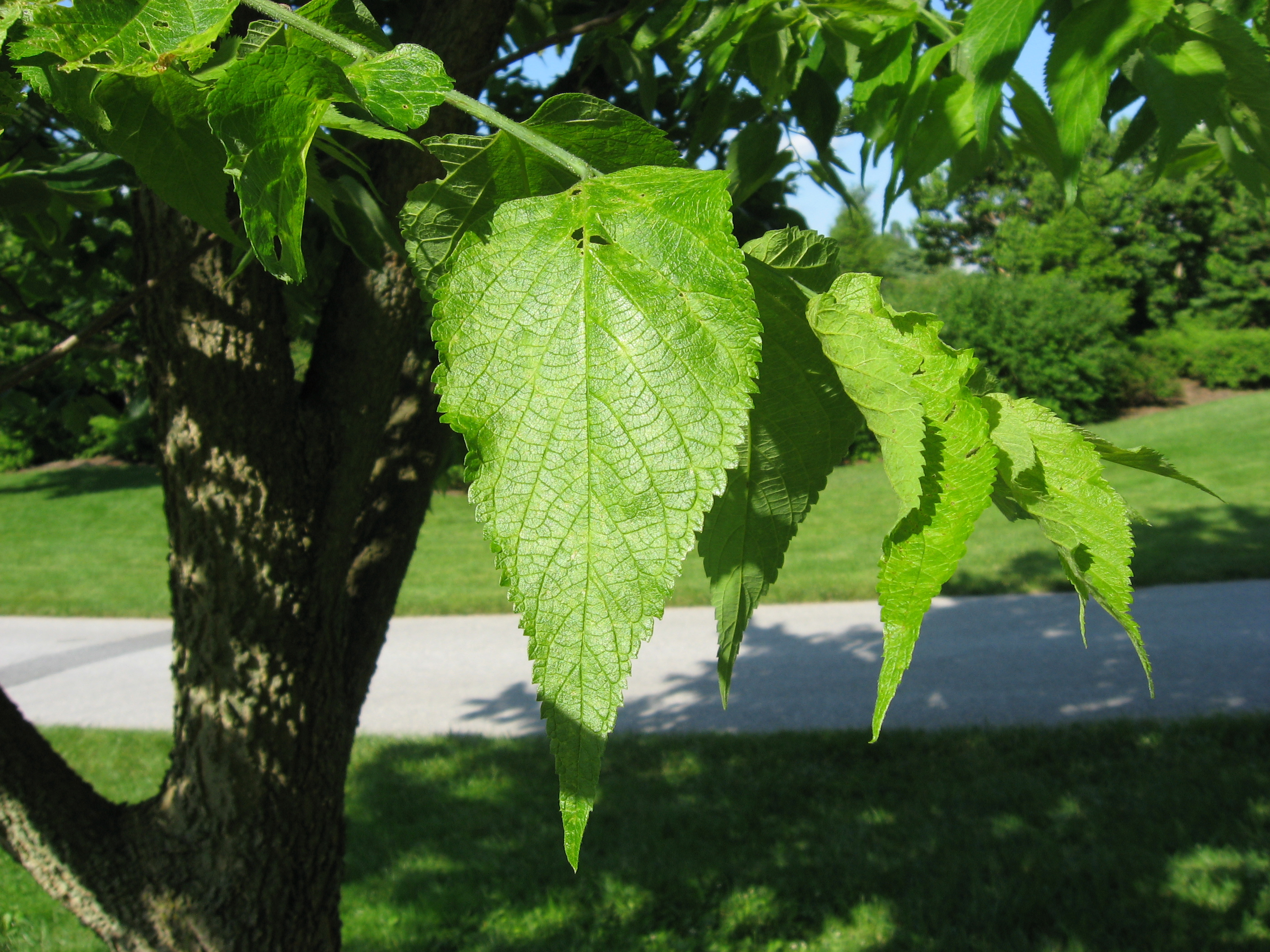 A picture of a leaf of Celtis occidentalis.